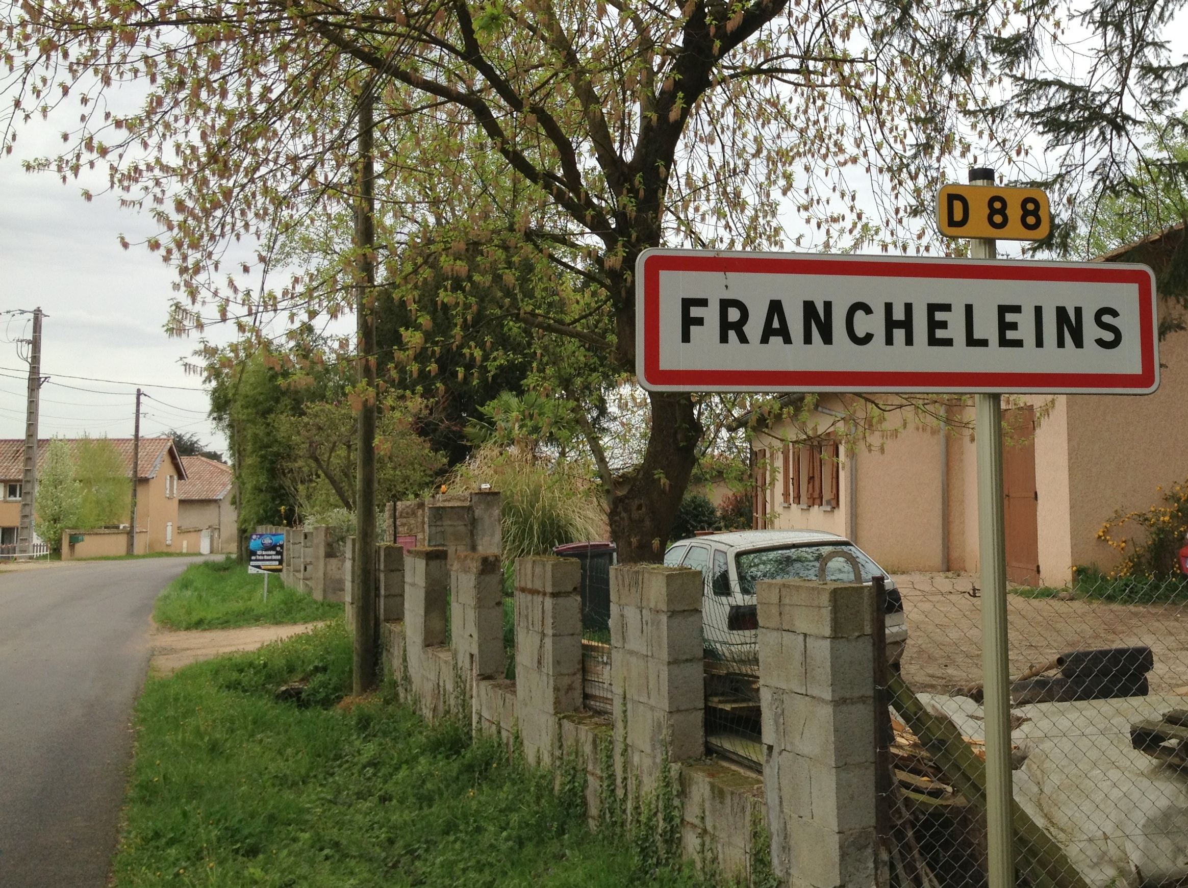 City limit sign Francheleins (Ain).